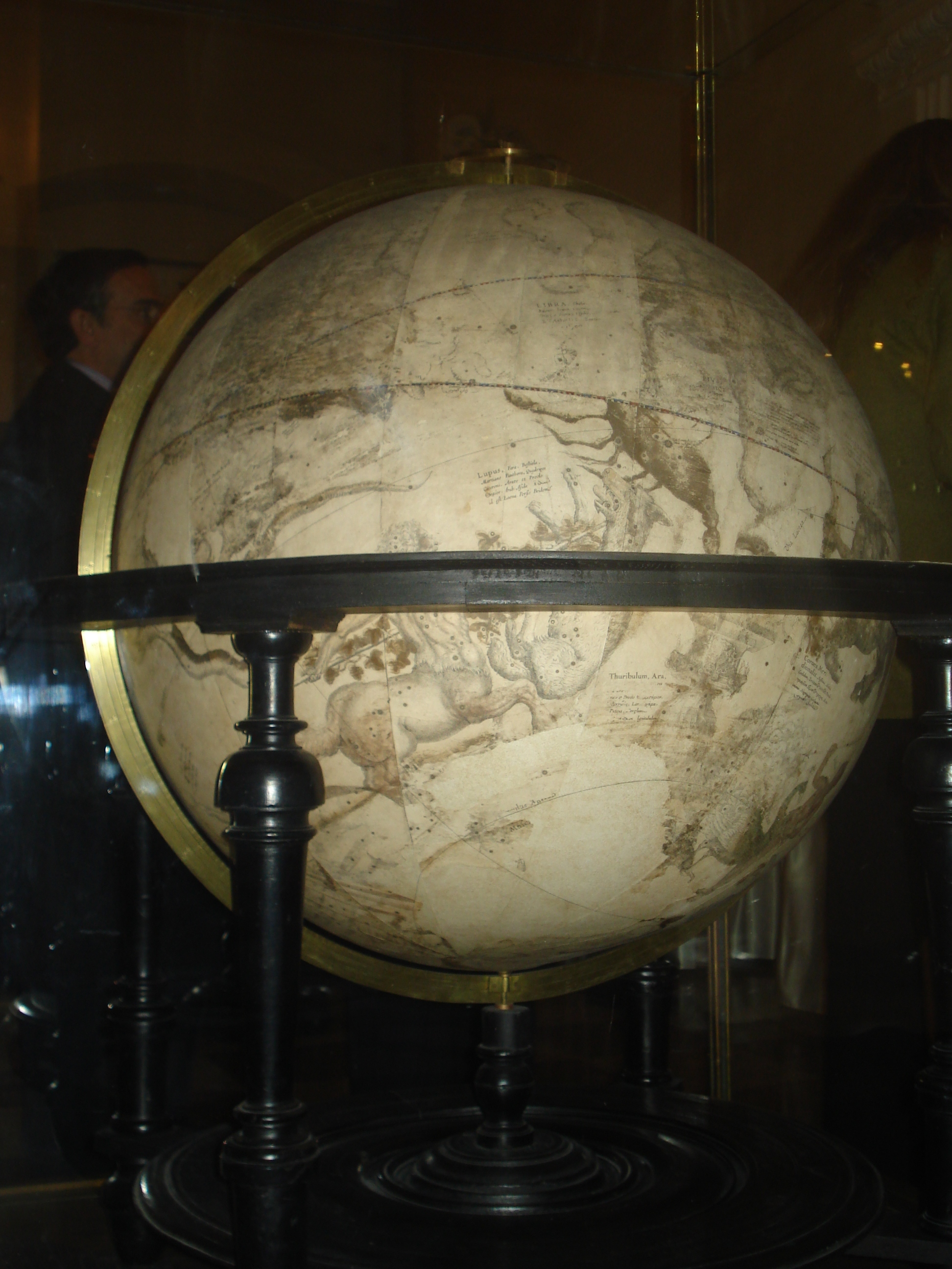 Celestial globe by Guiljelmus Jansonius Blaeuw of Amsterdam (1622) in the White hall of the Vilnius university library